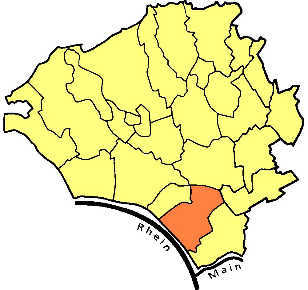 Map of Wiesbaden showing the location of Kastel